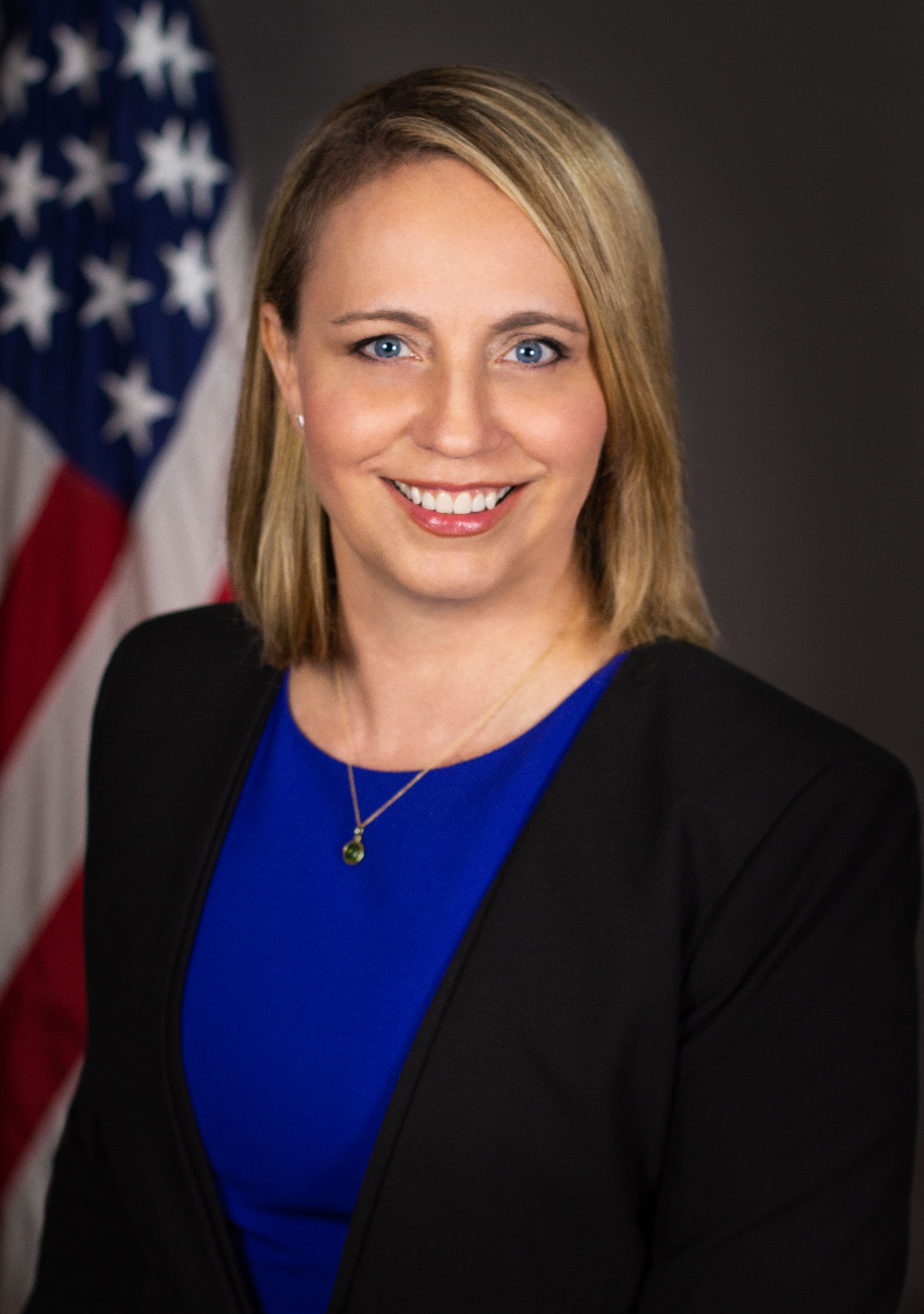 Official photo of Christi A. Grimm, former acting Inspector General at the U.S. Department of Health and Human Services